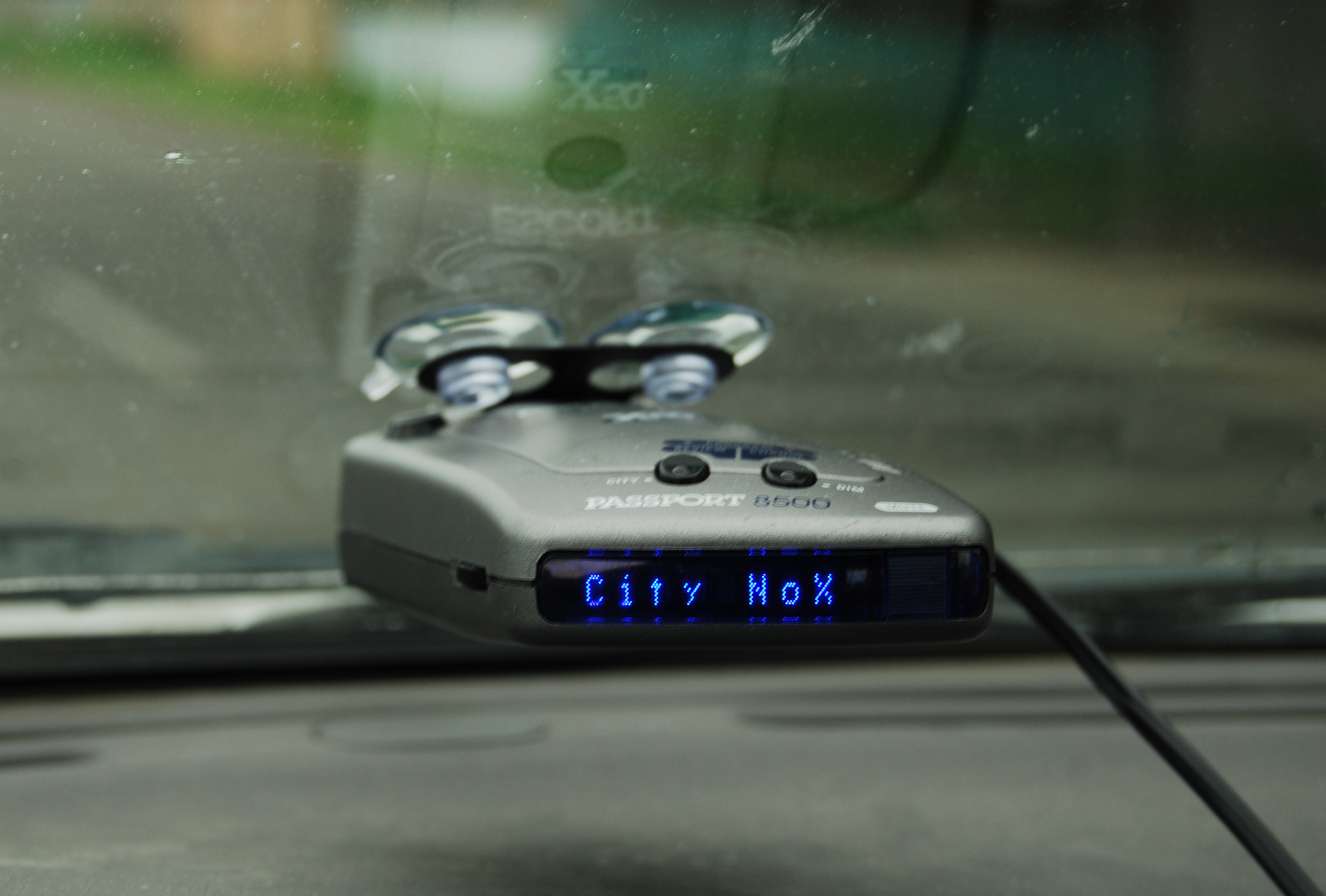 I Myke Waddy took this photo. July 6th 2009. Alberta, Canada.